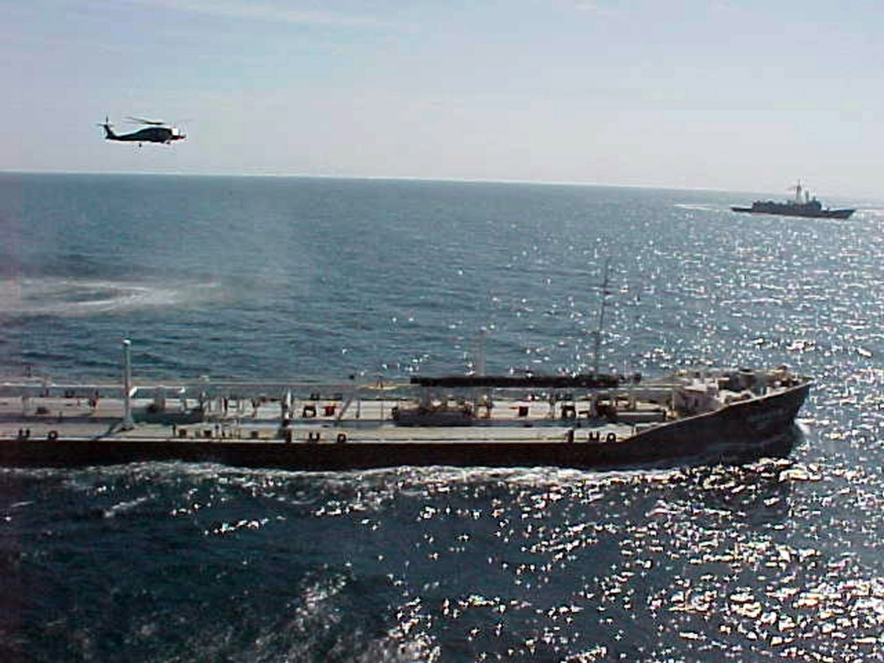 Air and sea assets of the multinational Maritime Interception Force shadow the Russian-flagged tanker Volgoneft-147 on Feb. 3, 2000. The Volgoneft-147 was boarded in international waters on Feb. 2 during interception operations conducted by the Ticonderoga class cruiser USS Monterey (CG-61). While operating under the authority of United Nations Security Council Resolution 665 the multinational Maritime Interception Force routinely intercepts and boards vessels suspected of carrying contraband.